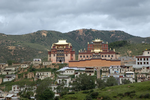 Sungtseling monastery, Yunnan, China